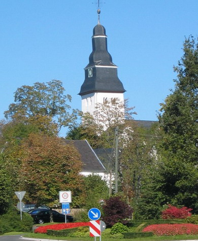 Ev. church at municipality Nümbrecht. - Blick auf die Ev. Kirche in Nümbrecht. Author mrfinch Time of creation 29 Oct. 2004 Licence GNU FDL and CC-by-SA Camera Canon S 45